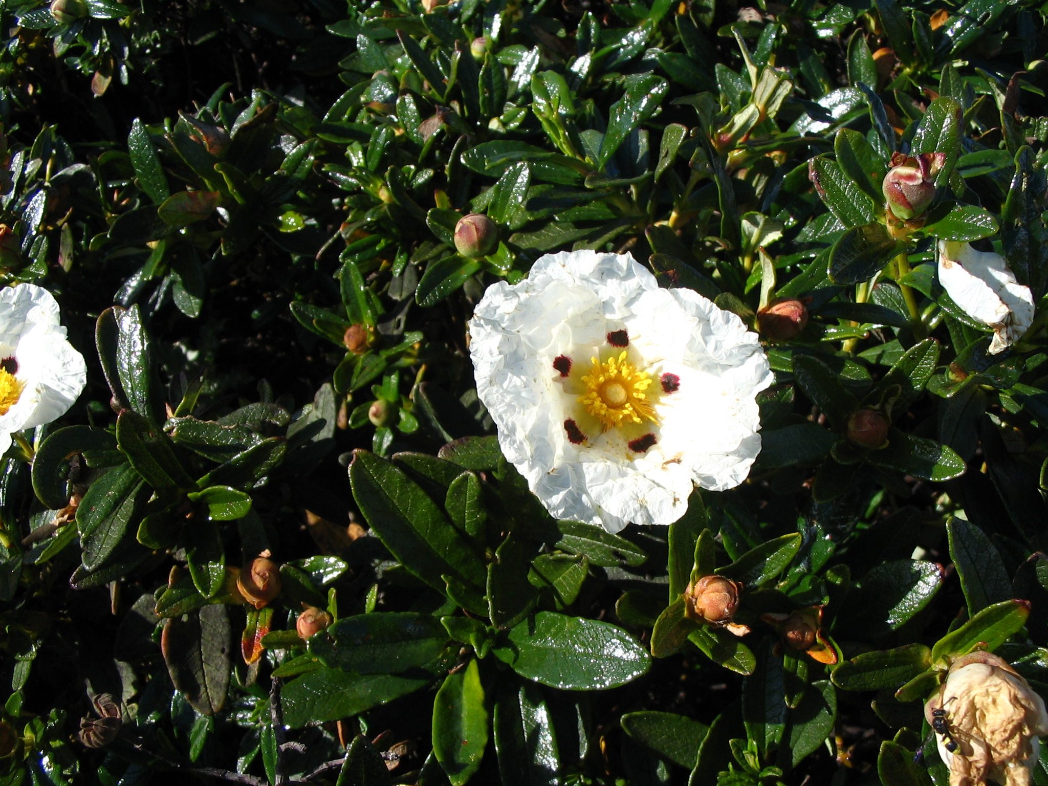 Cistus × dansereaui (C. ladanifer × C. inflatus) Portugal